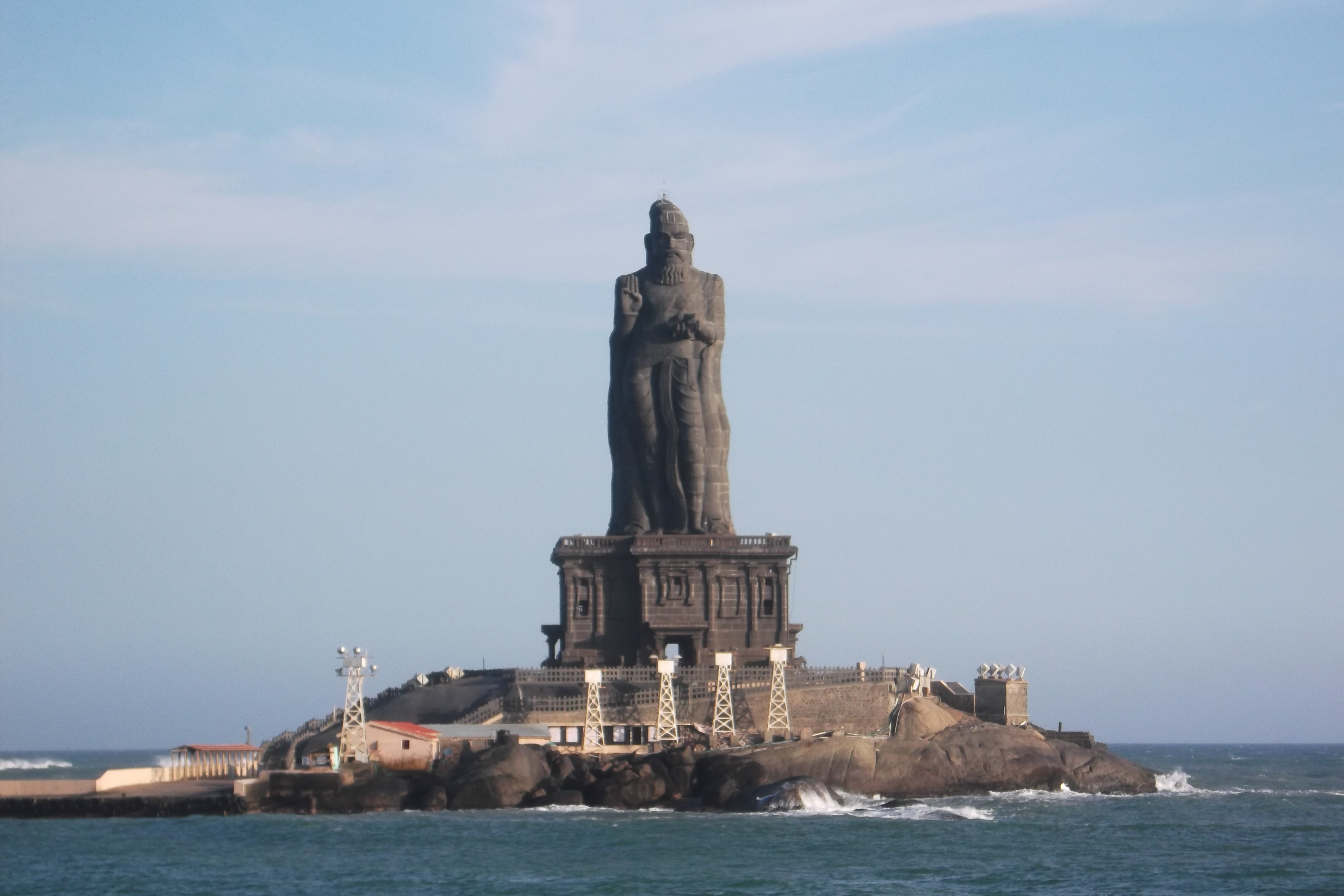 Thiruvalluvar Statue